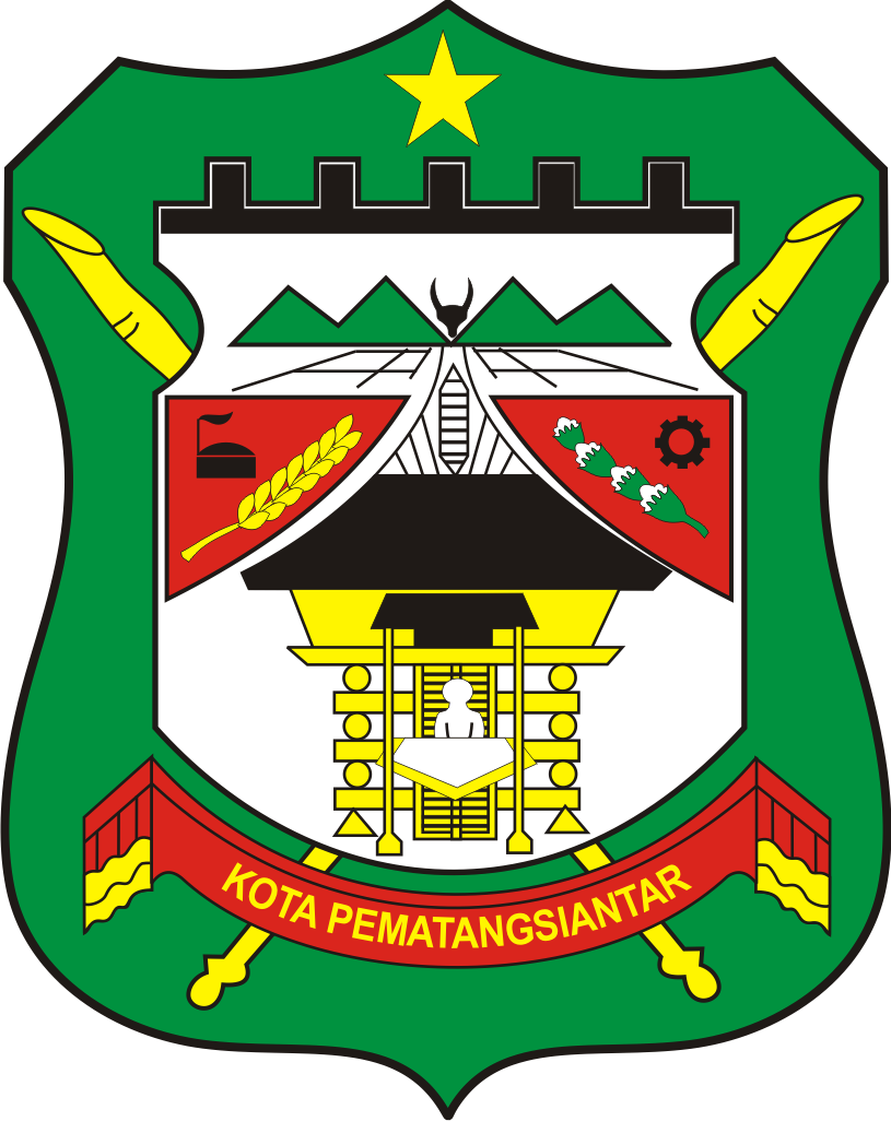 Shield of the city of Pematangsiantar (Indonesia)